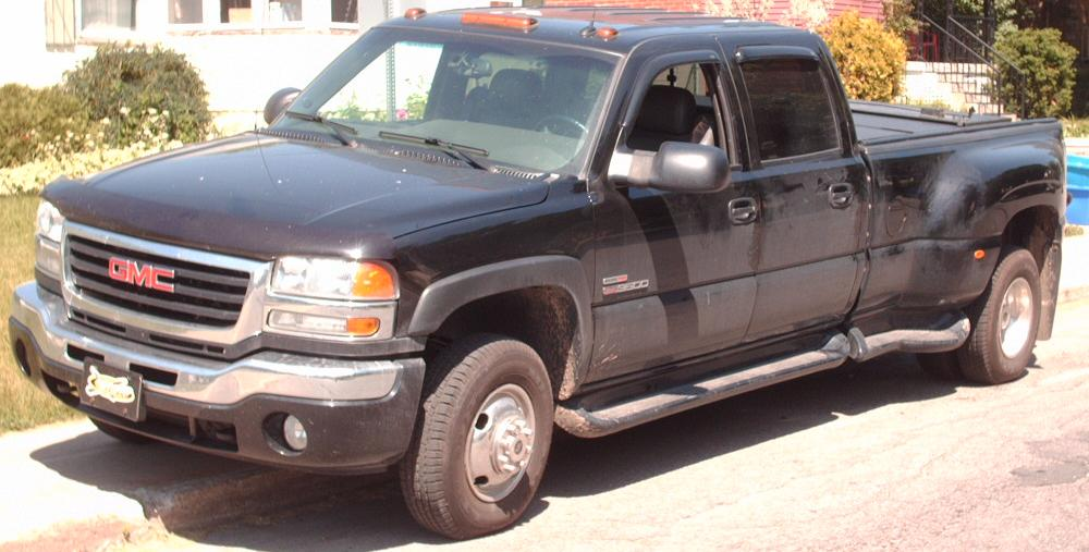 1999-2006 GMC Sierra 3500 photographed in Montreal, Quebec, Canada.